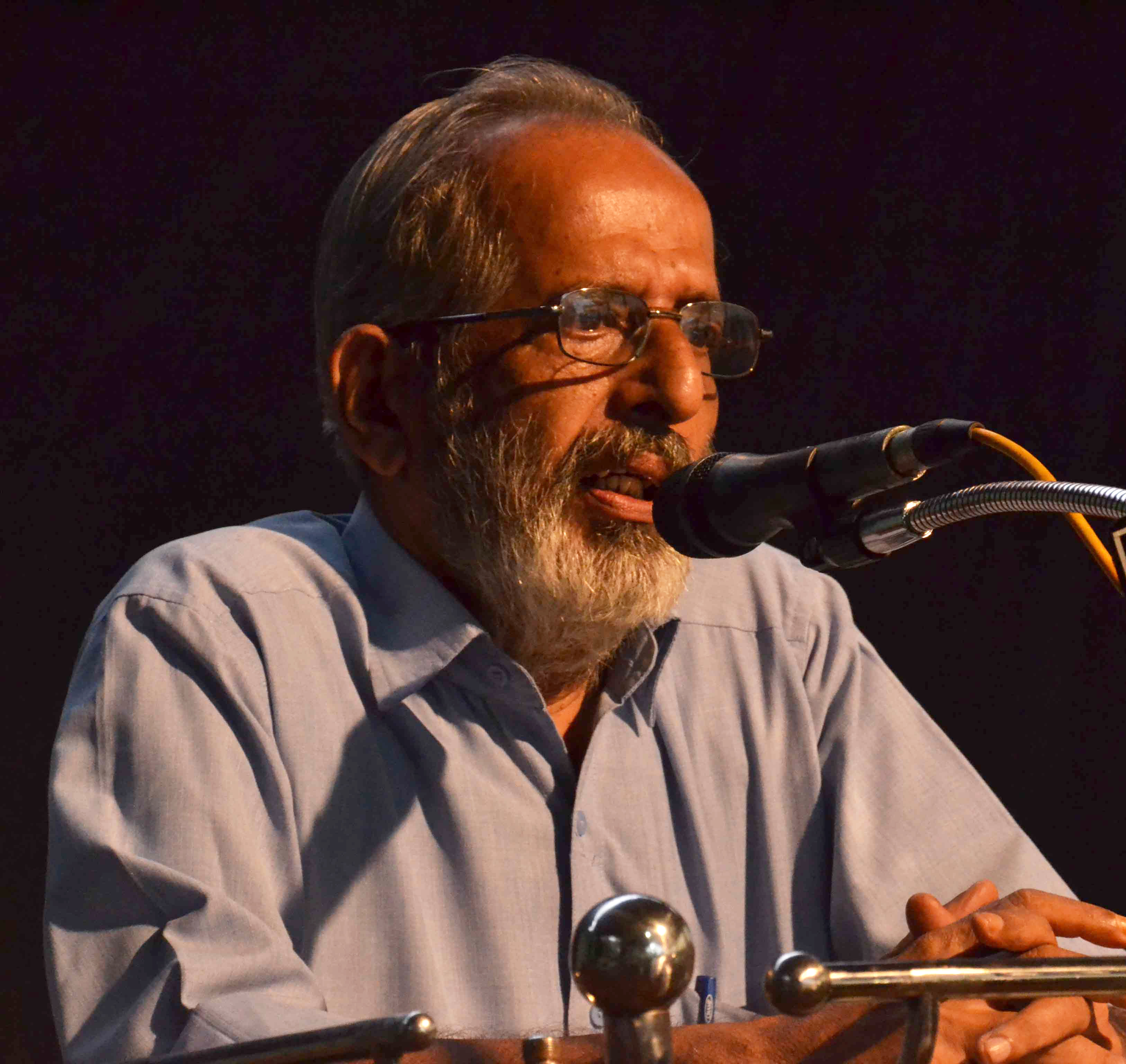 K Ramachandran : Writer, Environmentalist, Human Right Activist